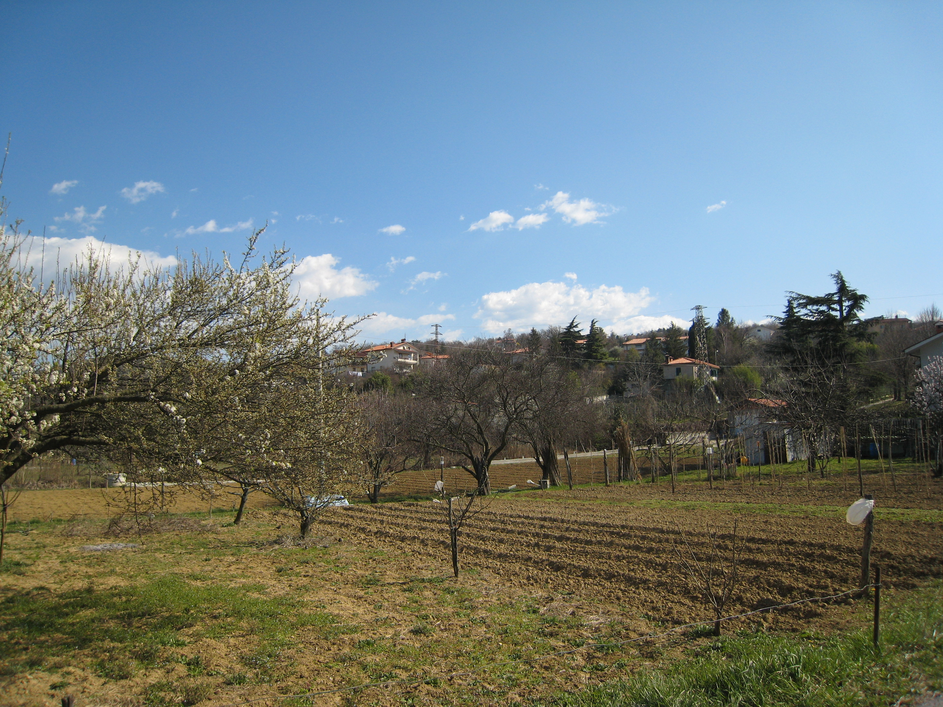 Italy - Muggia - Vignano